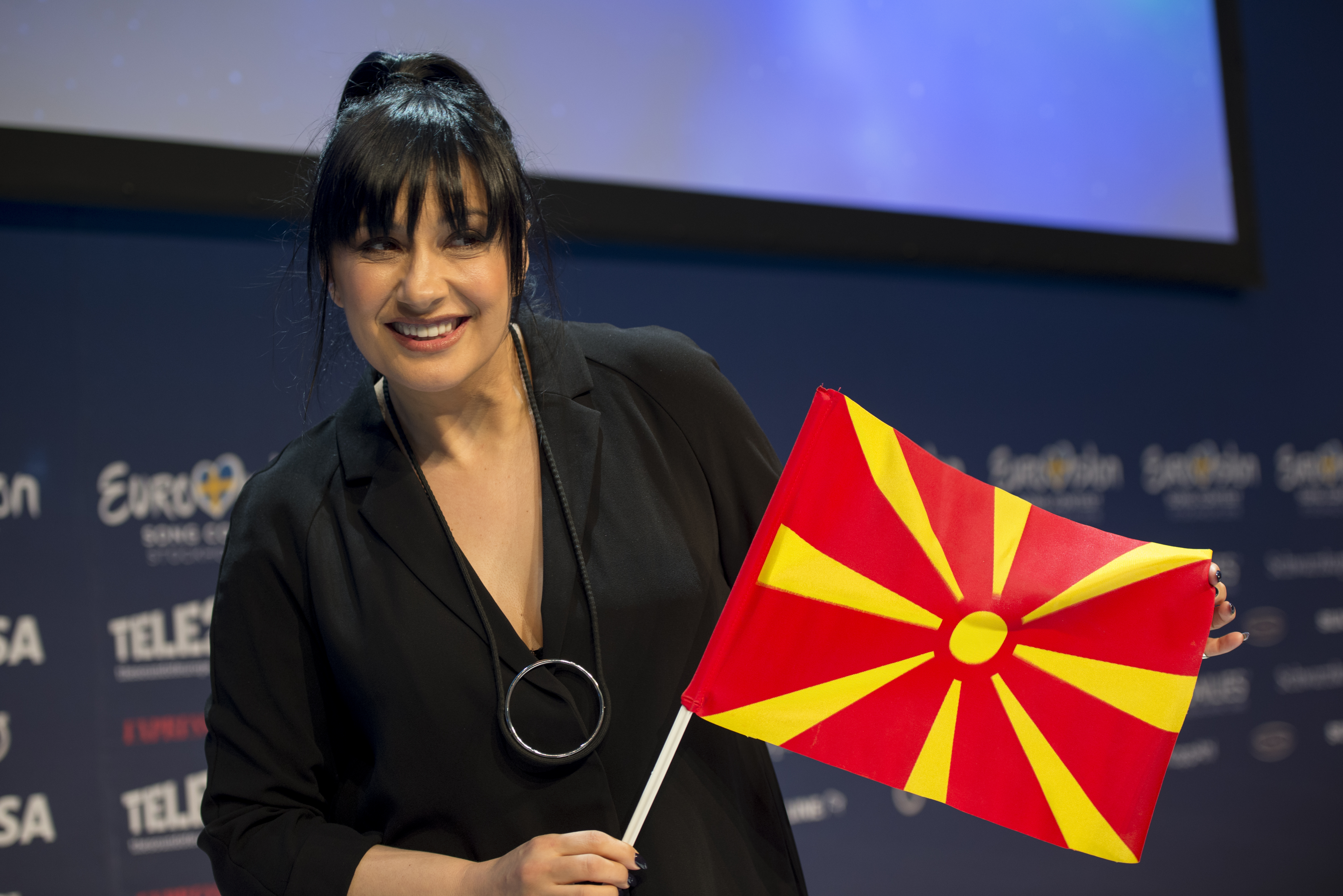 Kaliopi at a Meet & Greet during the Eurovision Song Contest 2016 Stockholm. (Help translate this text)